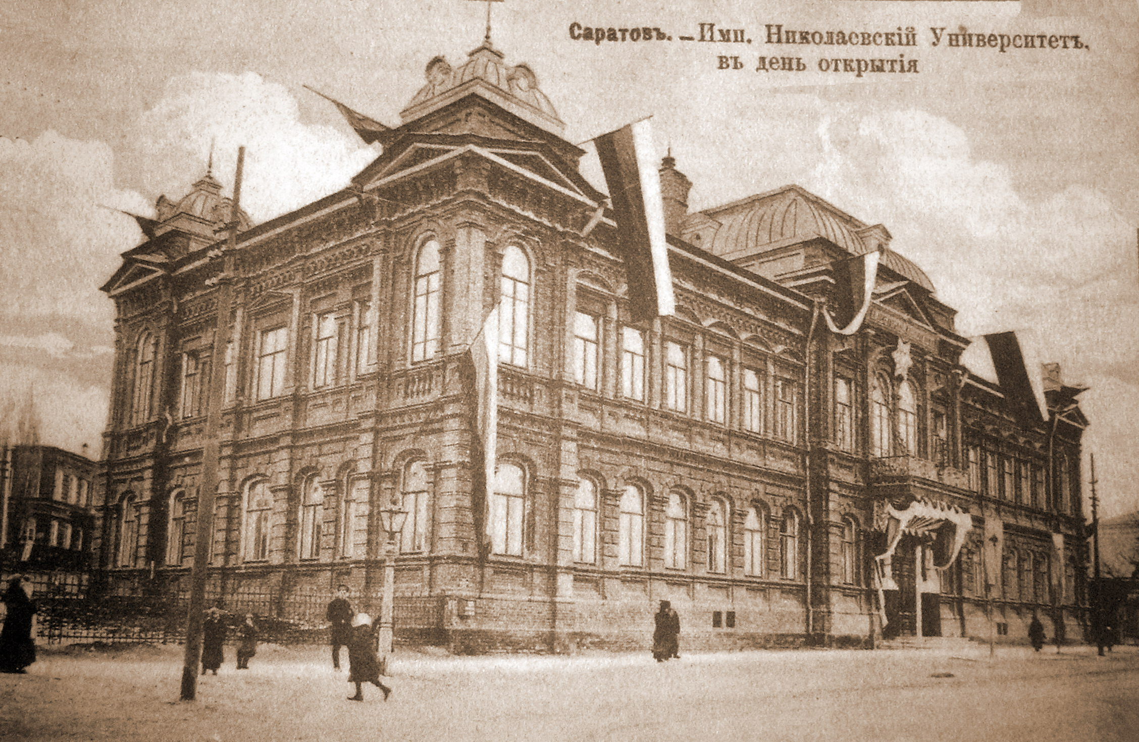 Saratov State University, 1909